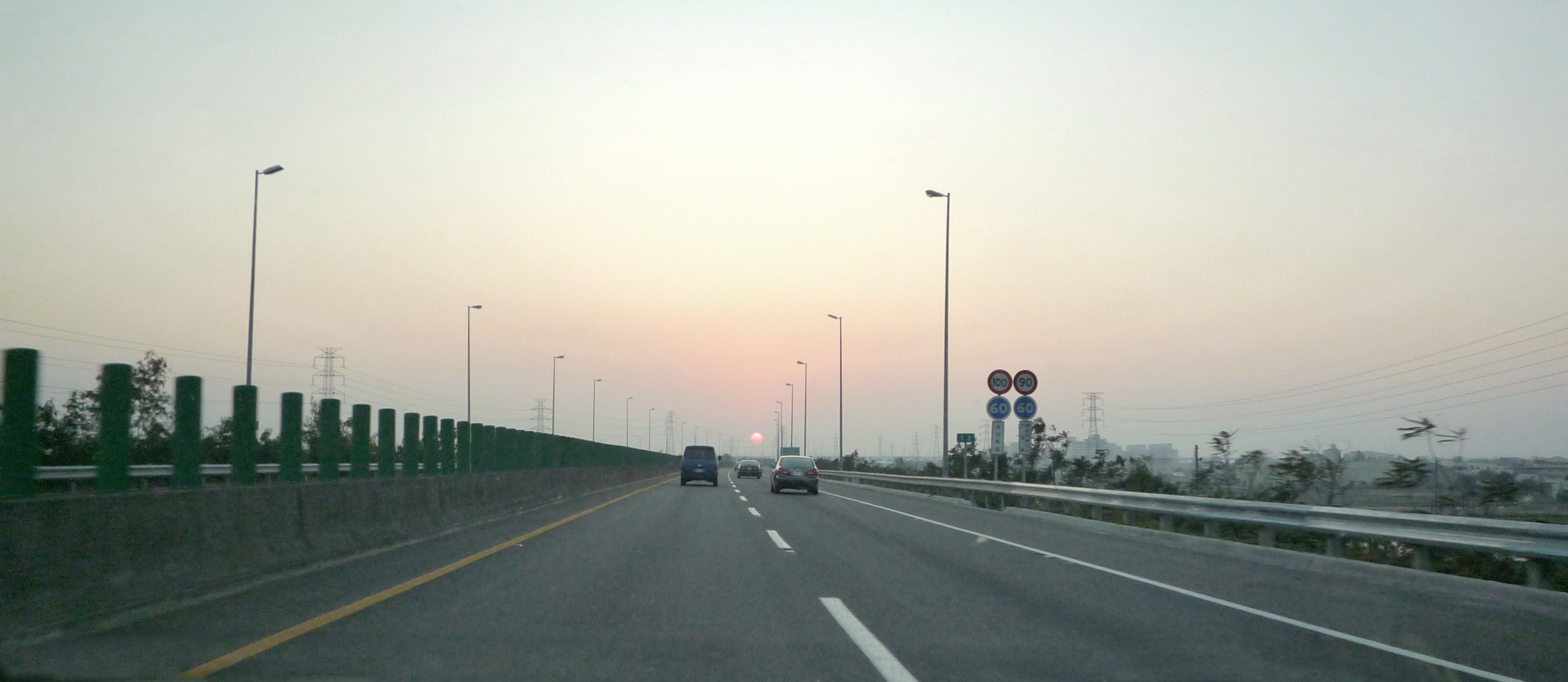 The view of National Highway No. 8